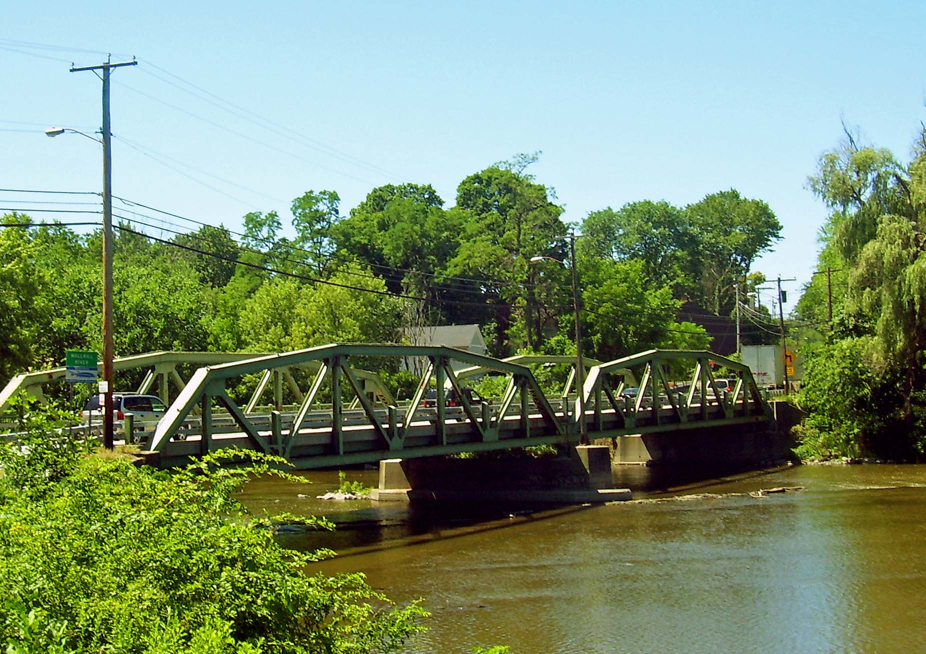 Photograph of Ward's Bridge from different angle than the other one, showing bridge and context better.